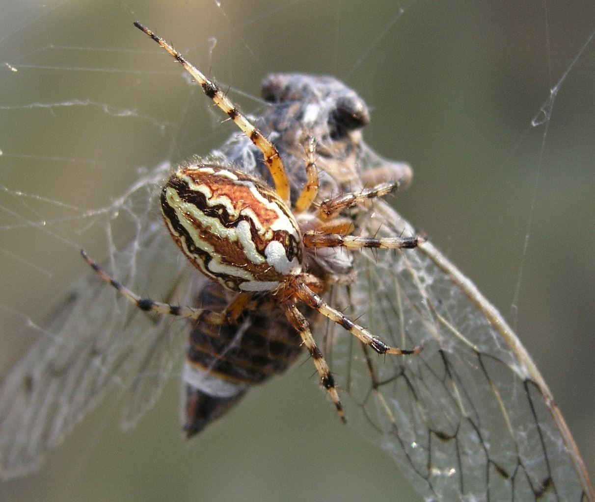 Spider eating cicada. Spider is able to catch a bigger prey than itself in its web. This is Aculepeira armida. --Sarefo 21:42, 2 May 2008 (UTC)